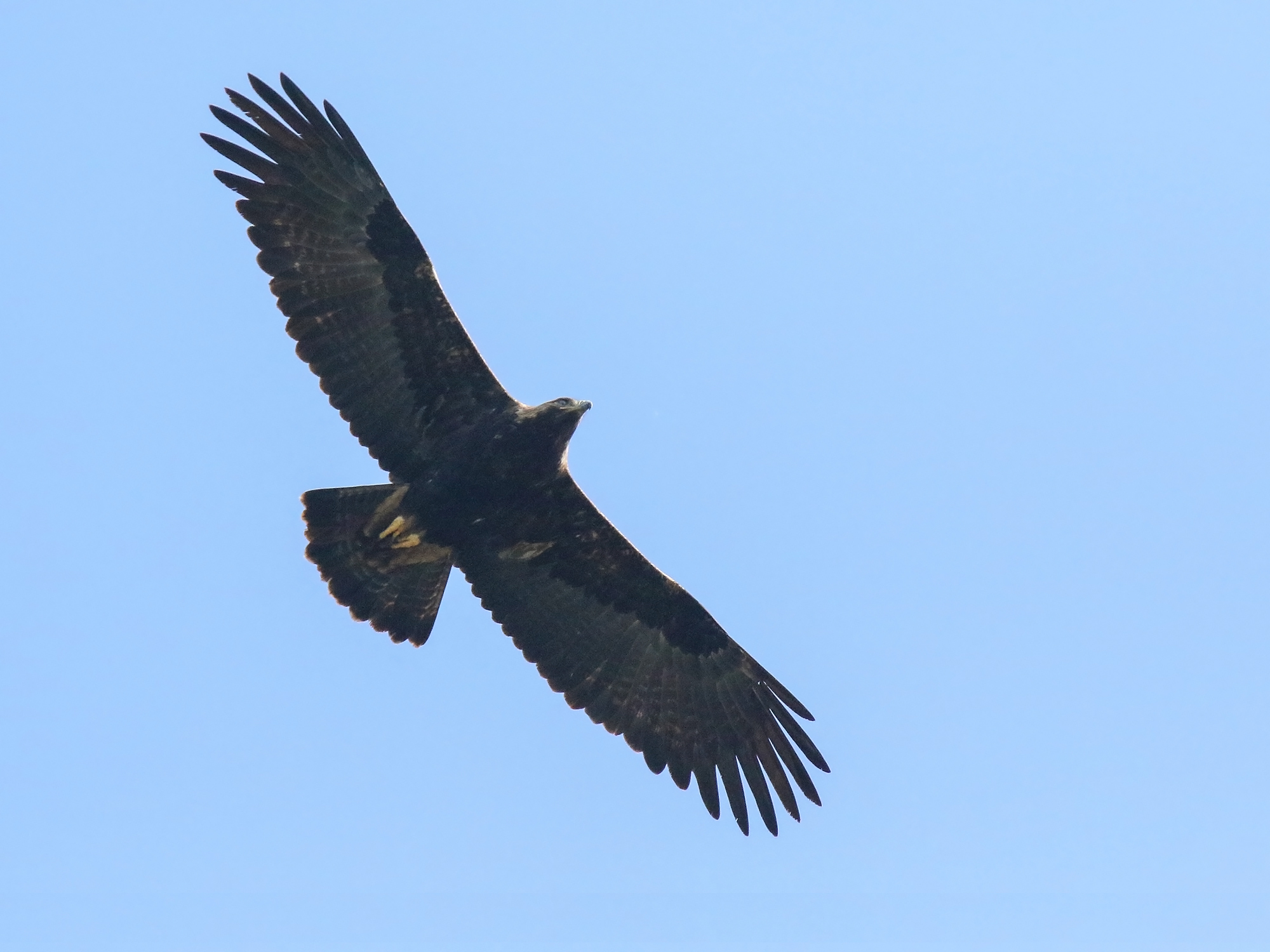 Imperial Eagle (Aquila heliaca) captured at Marala, Sialkot, Punjab, Pakistan with Canon EOS 7D Mark II